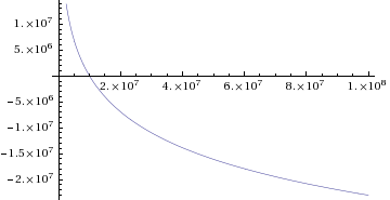 I made this myself, and release it into the public domain.